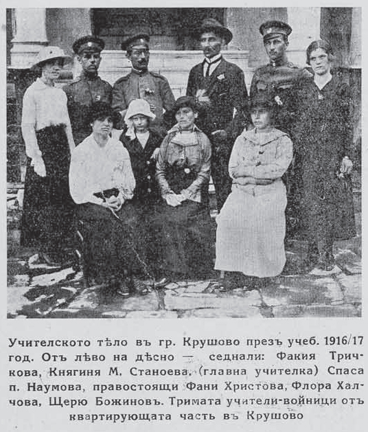 Krushevo Exarchate teachers